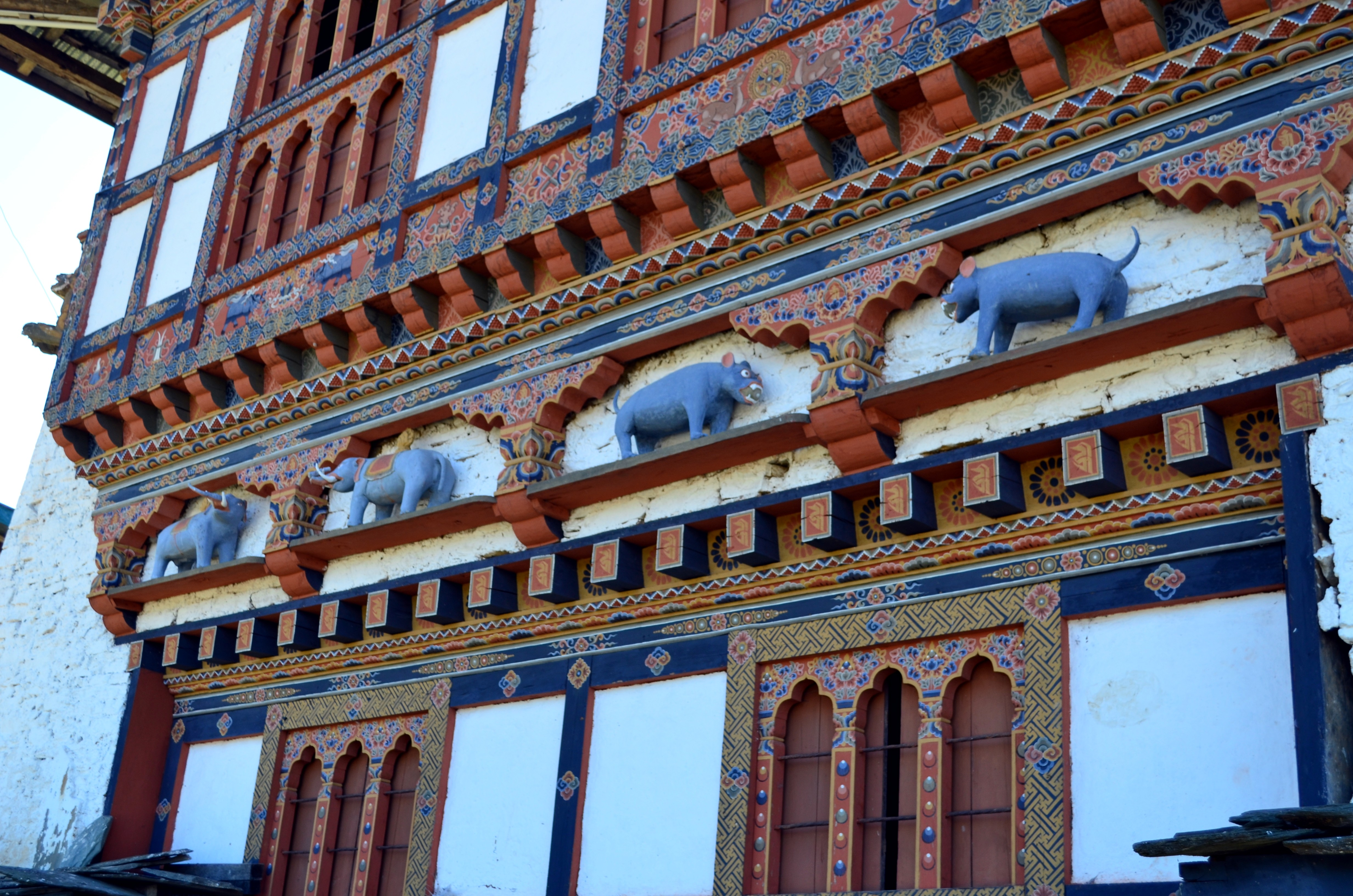 Eaves and brackets of Buddhist Yagang Lhakhang Temple — architectural details in Mongar, Bhutan.